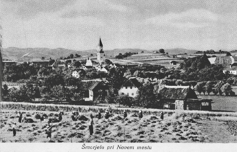 Postcard of Šmarjeta